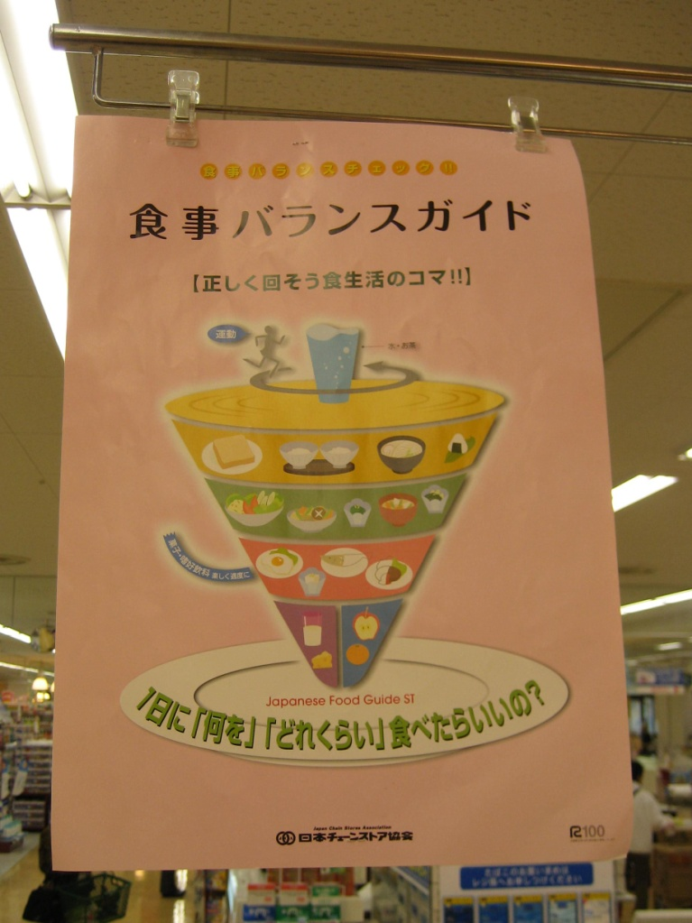 I like this take on the traditional food pyramid - note the incorporation of water (and tea, it says) along with physical exercise at the top.